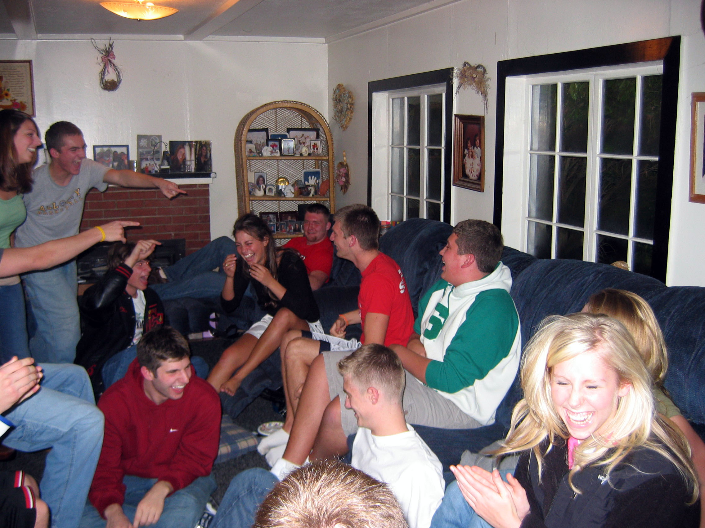 A birthday party in Oregon. Taken by me.